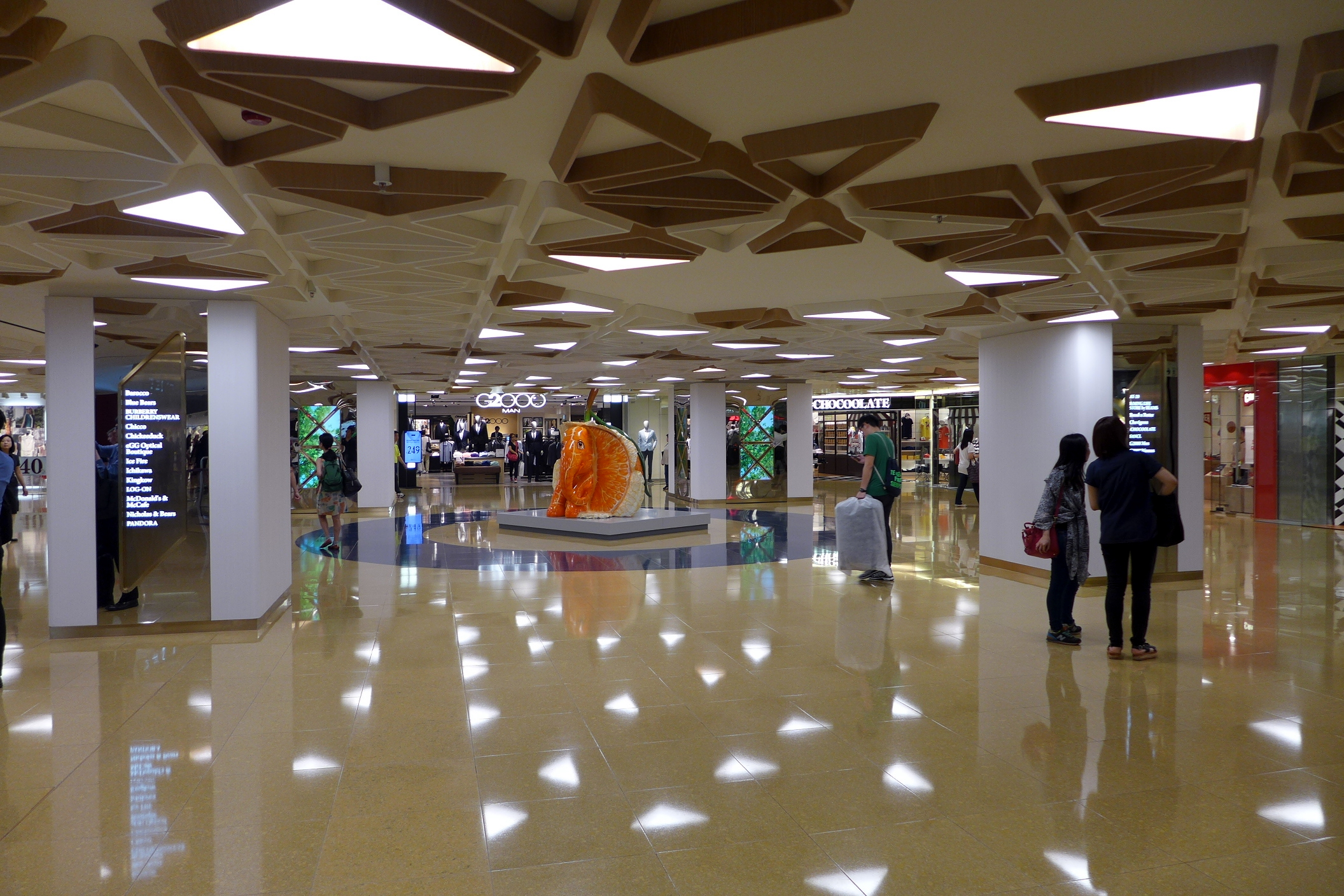 Cityplaza Phase 1 Level 2